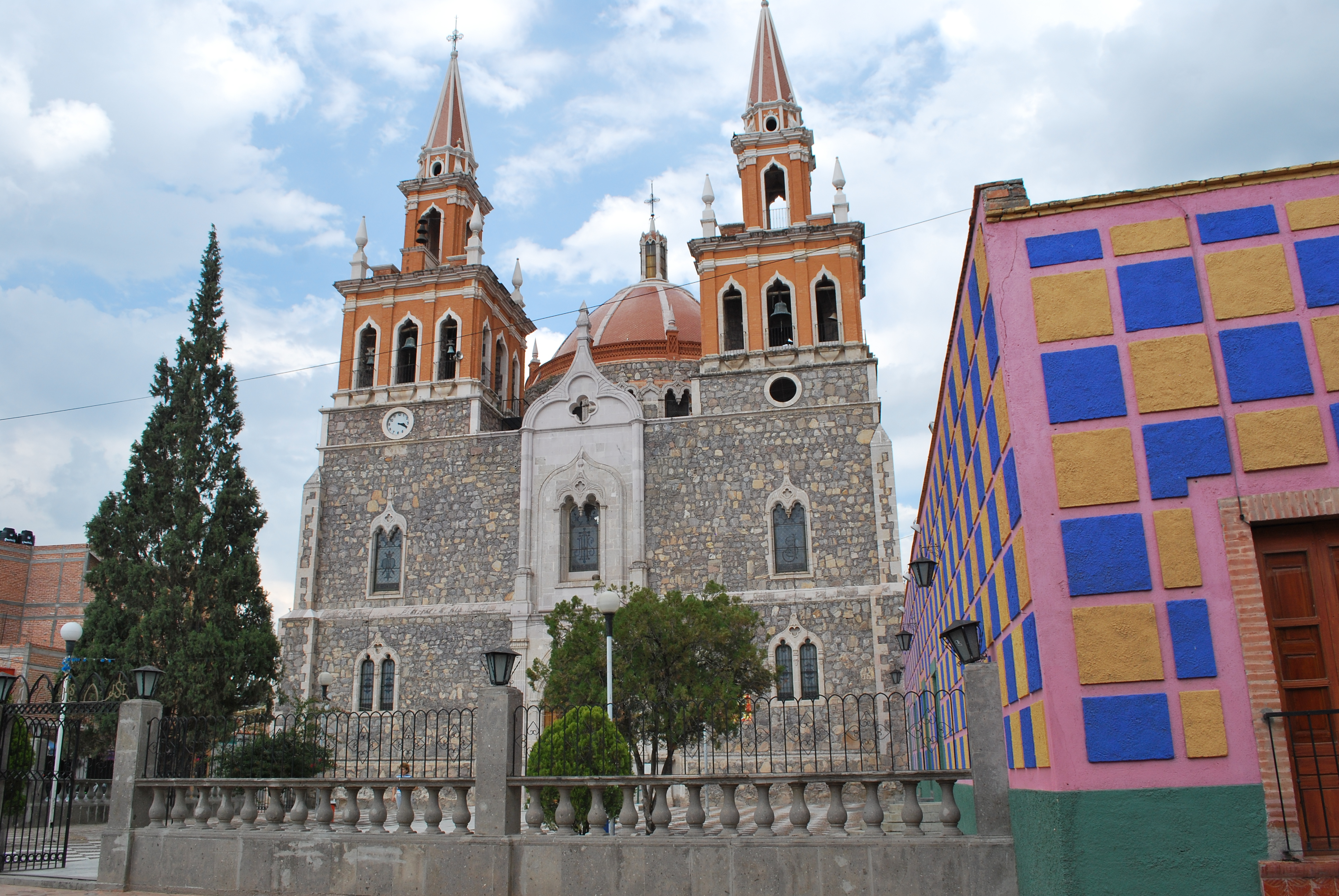 Parish of Jesus, Maria y Jose in Encarnacion de Diaz, Jalisco